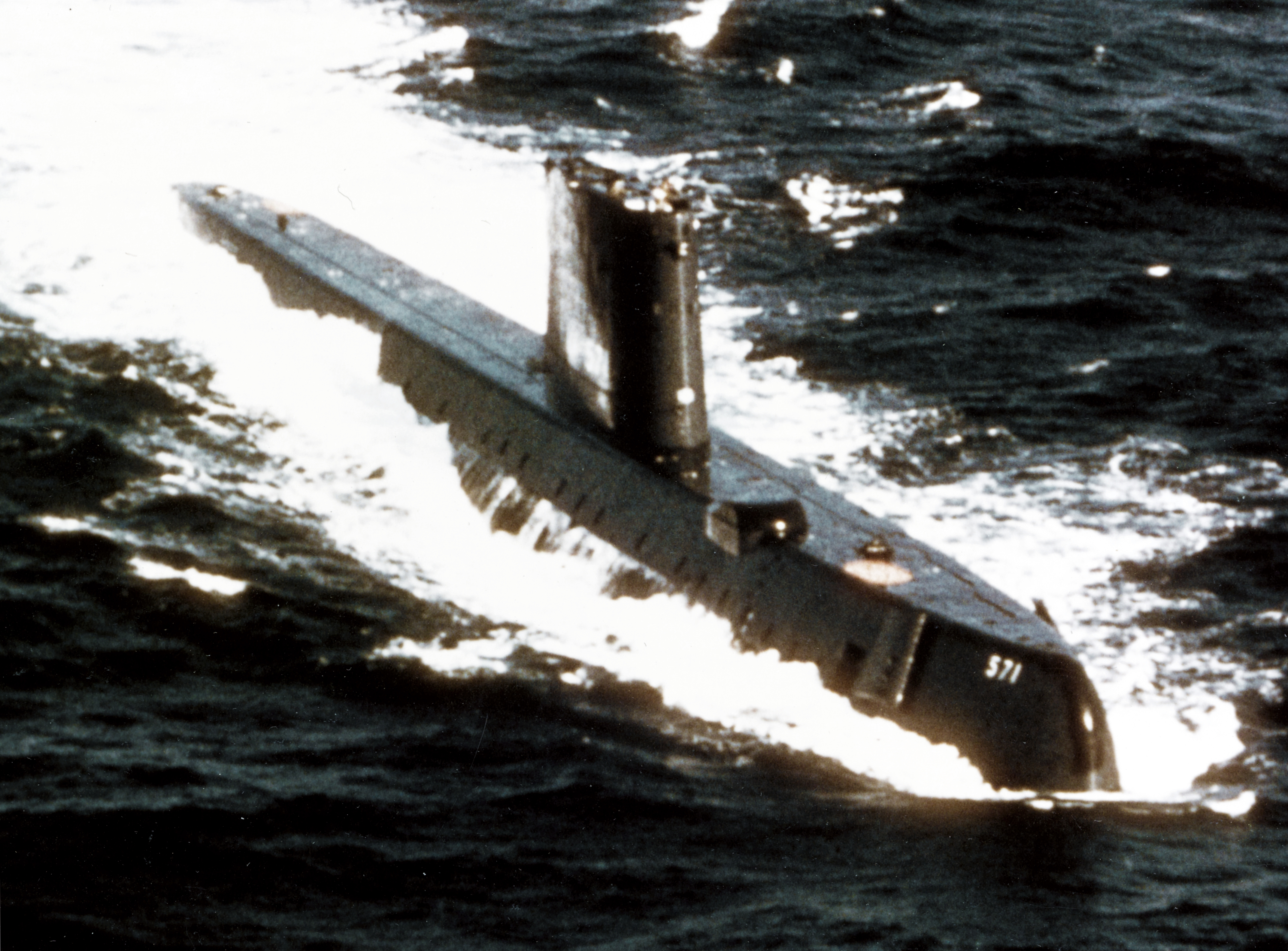 The first U.S. Navy nuclear-powered submarine USS Nautilus (SSN-571) underway at sea in November 1955.